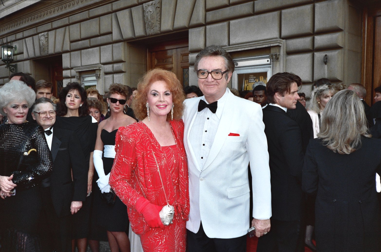 Steve Allen at the 39th Emmy Awards, September, 1987